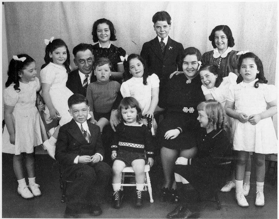 Dionne Family